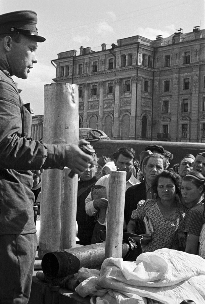 “A soldier teaching Muscovites to neutralize fire-bombs”. A Red Army soldier teaching Muscovites to neutralize Nazi fire-bombs on Sverdlov Square in Moscow.